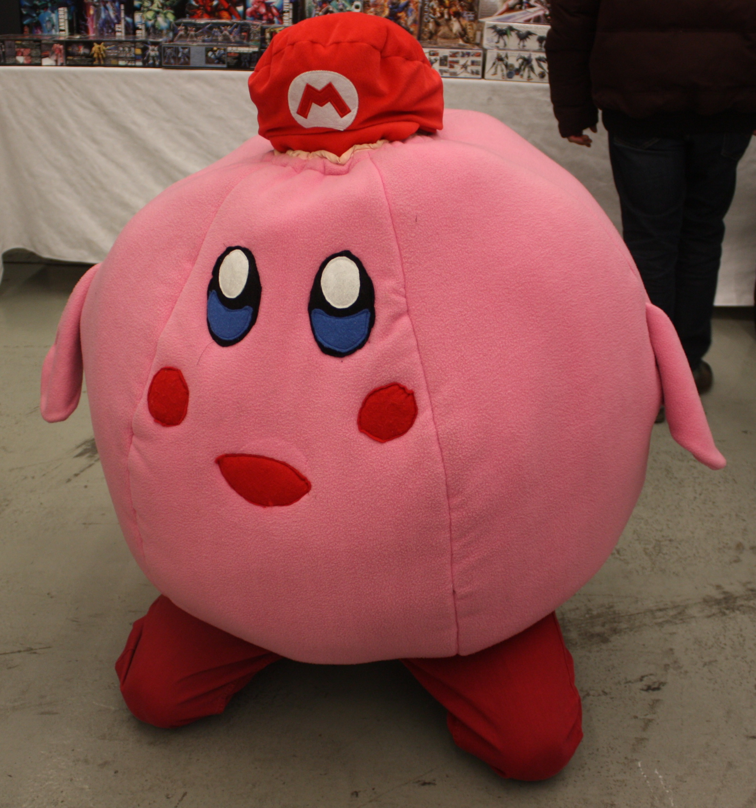 Cosplay of Kirby as Mario at the Montreal Mini-Comiccon 2014.